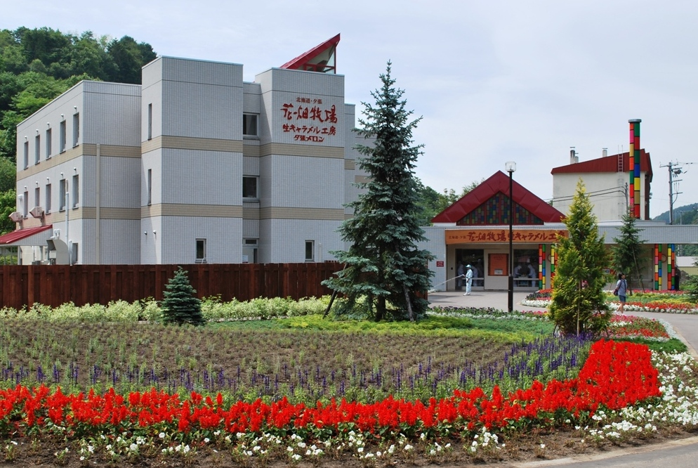 Caramel factory of Hanabatake ranch at Yubari